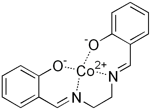 chemical structure of salcomine (Co(SALEN)2, Ethylenebis(salicylimine) cobalt(II) salt)